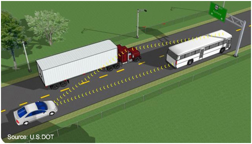 ITS image - V2V communication on freeways will help to prevent crashes